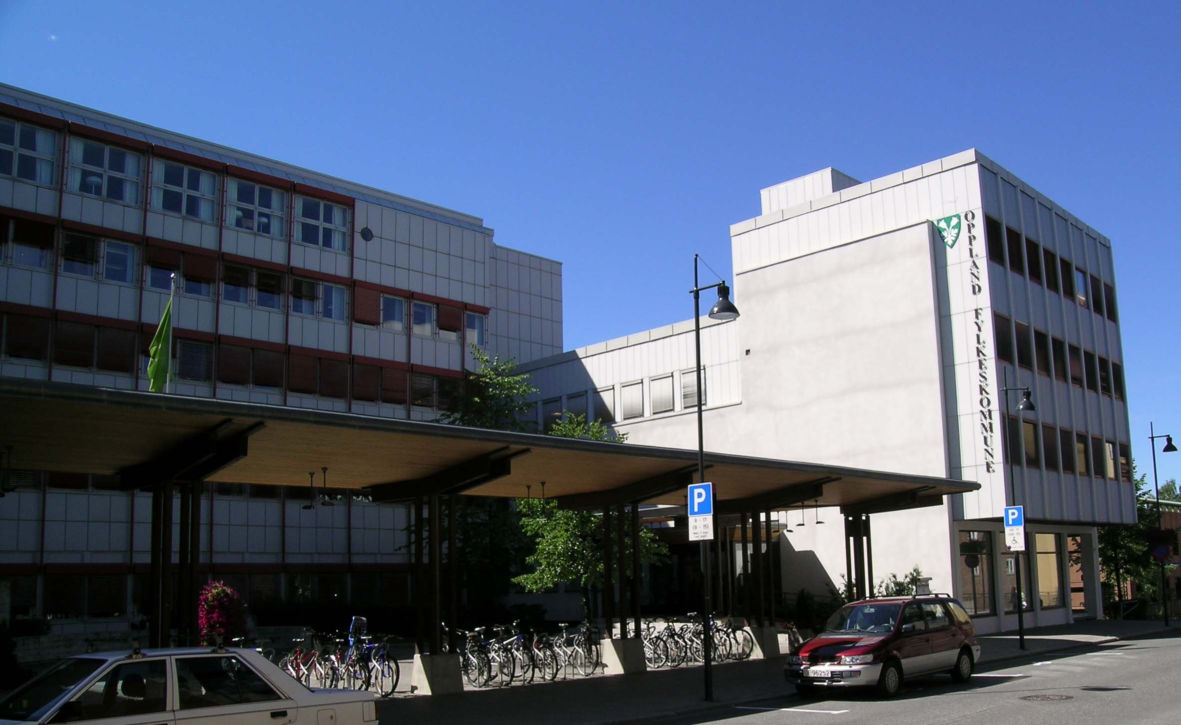 Oppland county council, Lillehammer, Norway